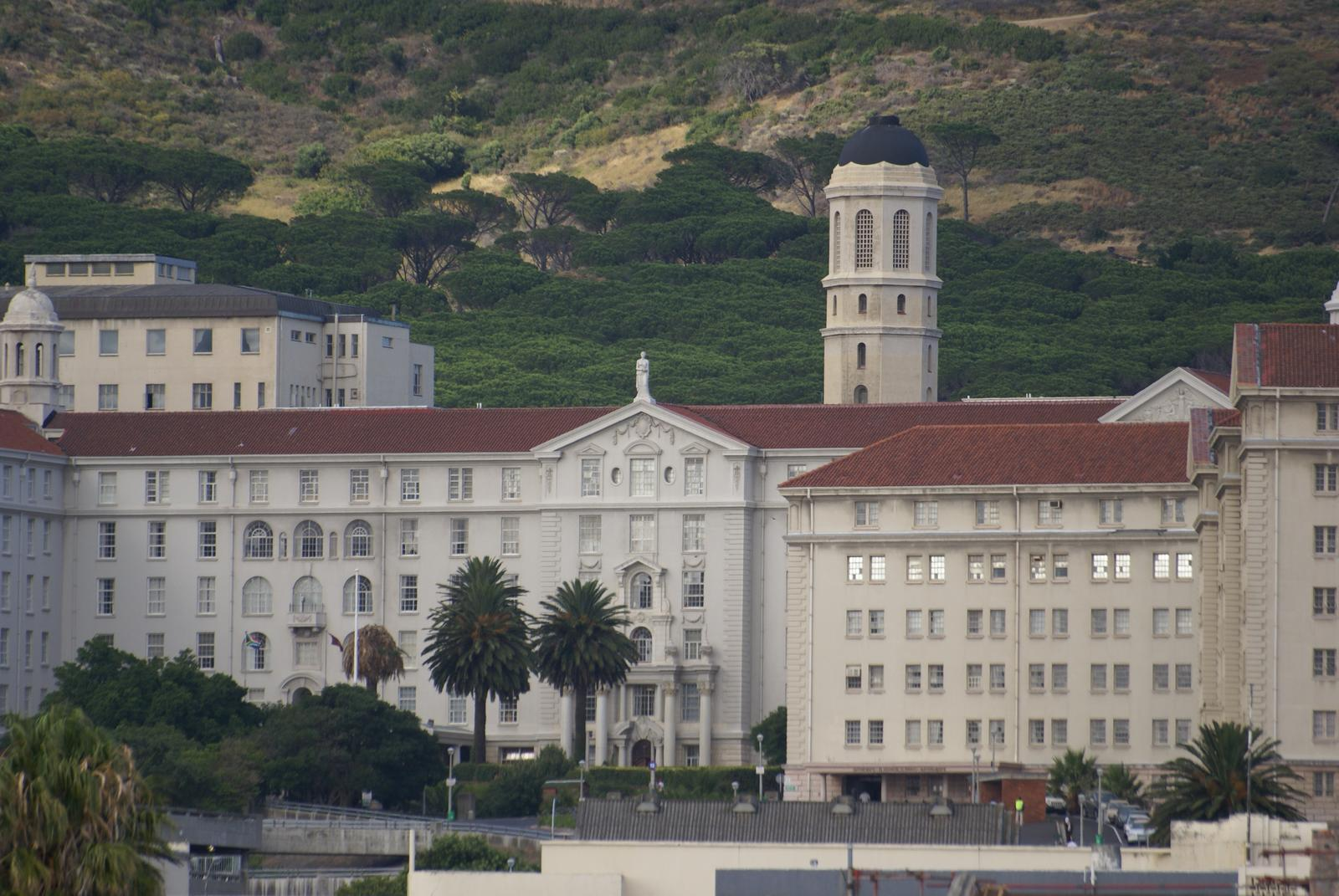 Old Main Building of Groote Schuur Hospital - Cape Town (South Africa)